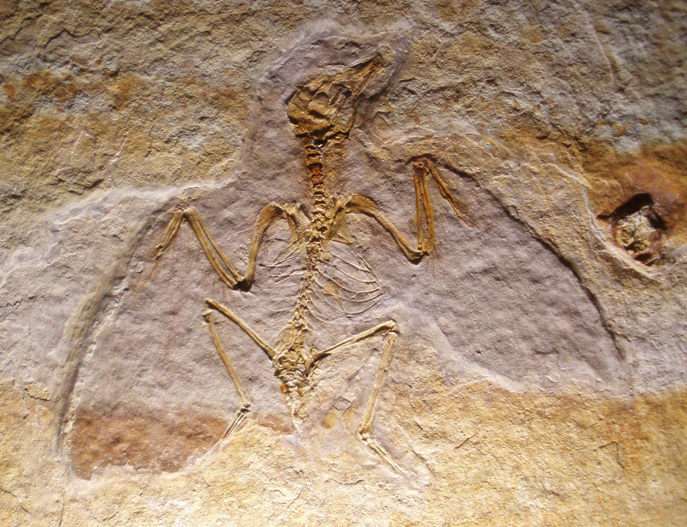 fossil juvenile enantiornithine labelled as the dubious genus "Liaoxiornis"